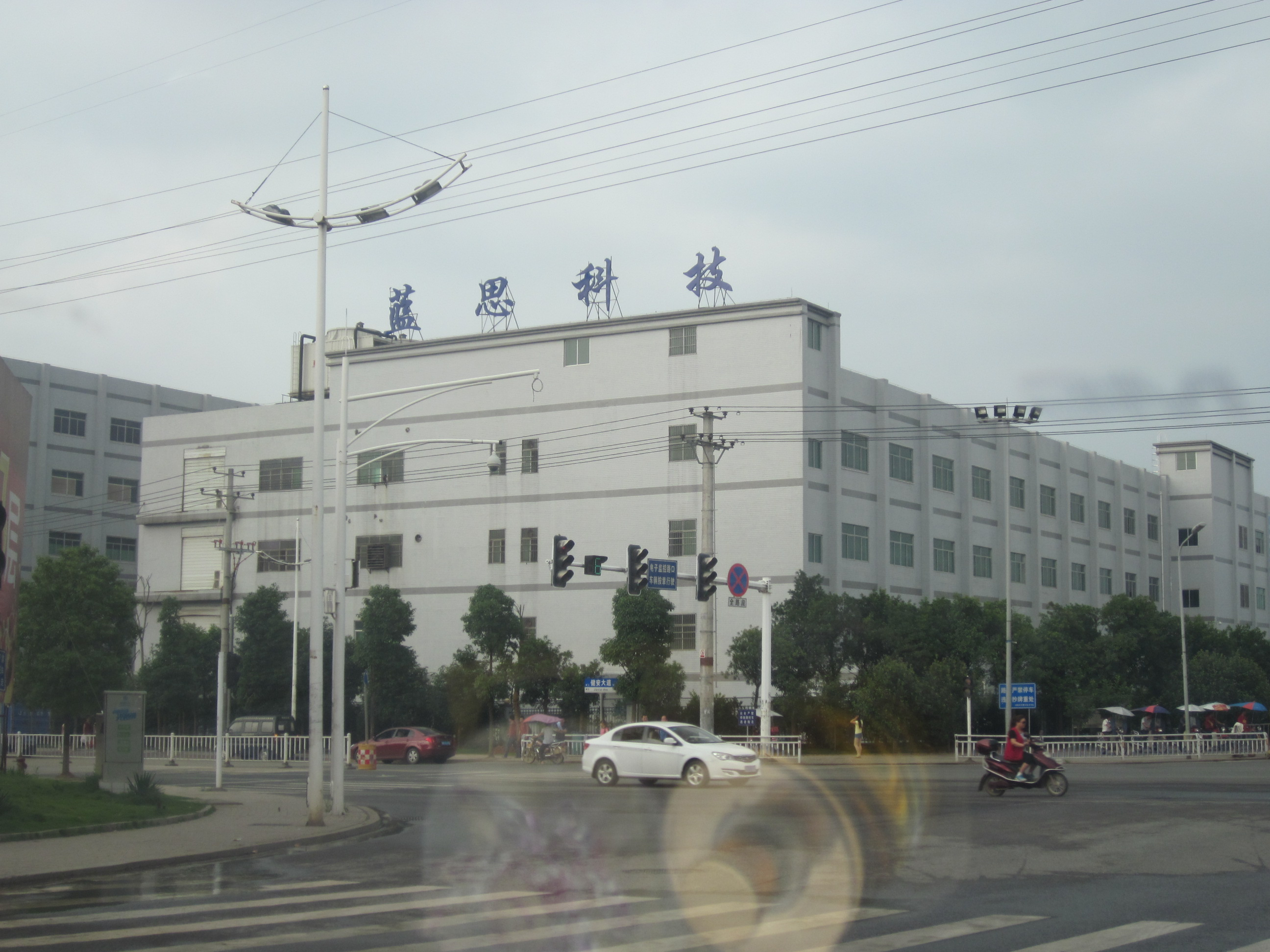 Liuyang Industrial Park (Chinese: 浏阳工业园) is an industrial park established by the government of the People's Republic of China in 1997 to foster scientific and technological development.